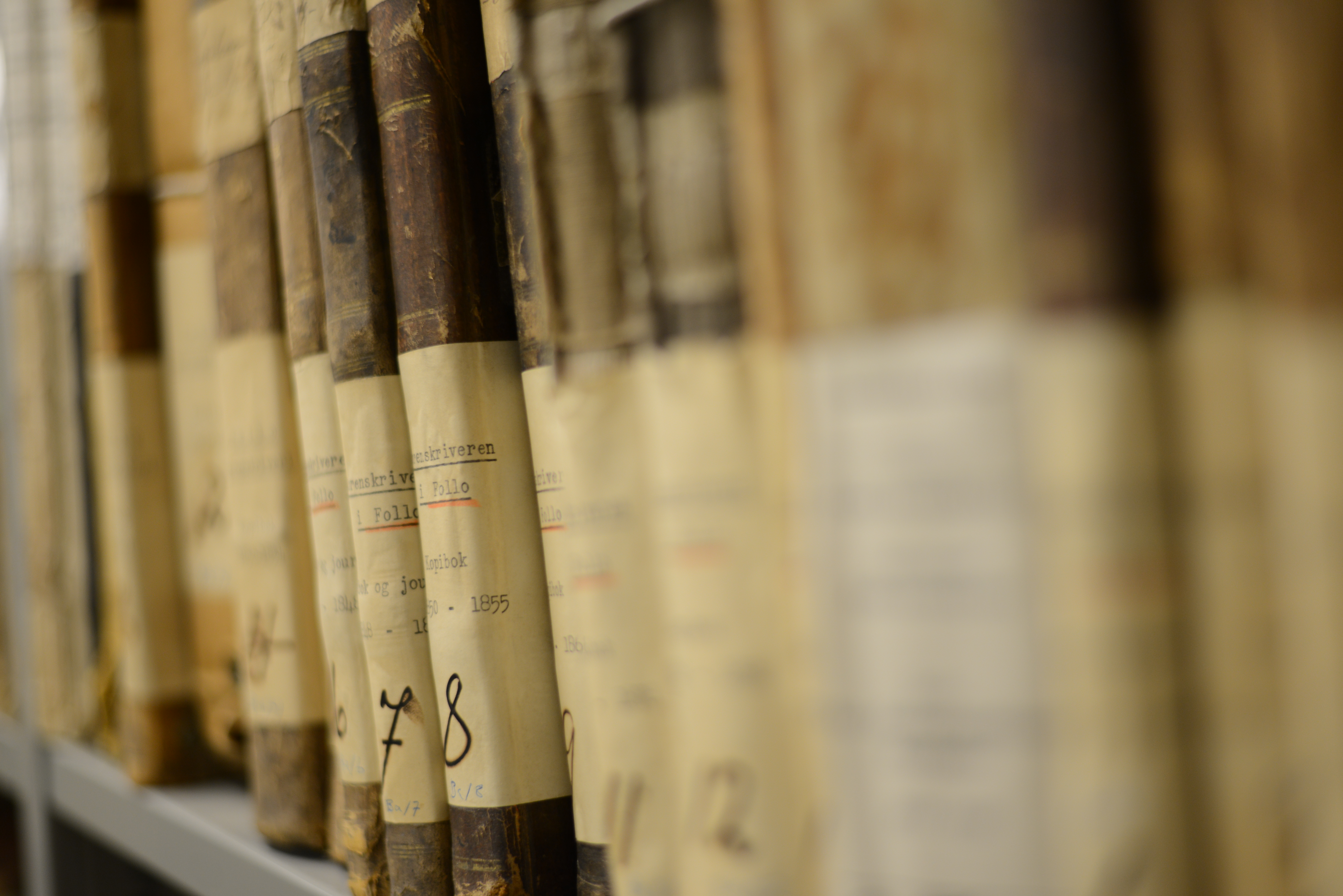 Riksarkivet - Books in shelf